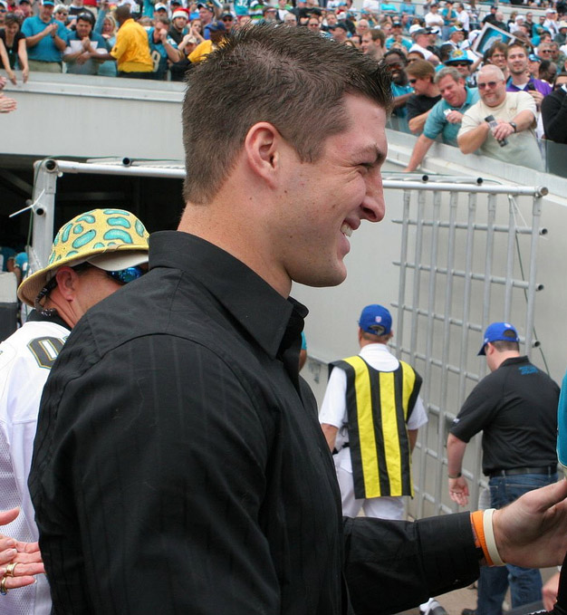 Tim Tebow, quarterback for the Florida Gators football team